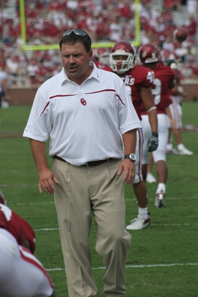 University of Oklahoma football offensive coordinator Kevin Wilson